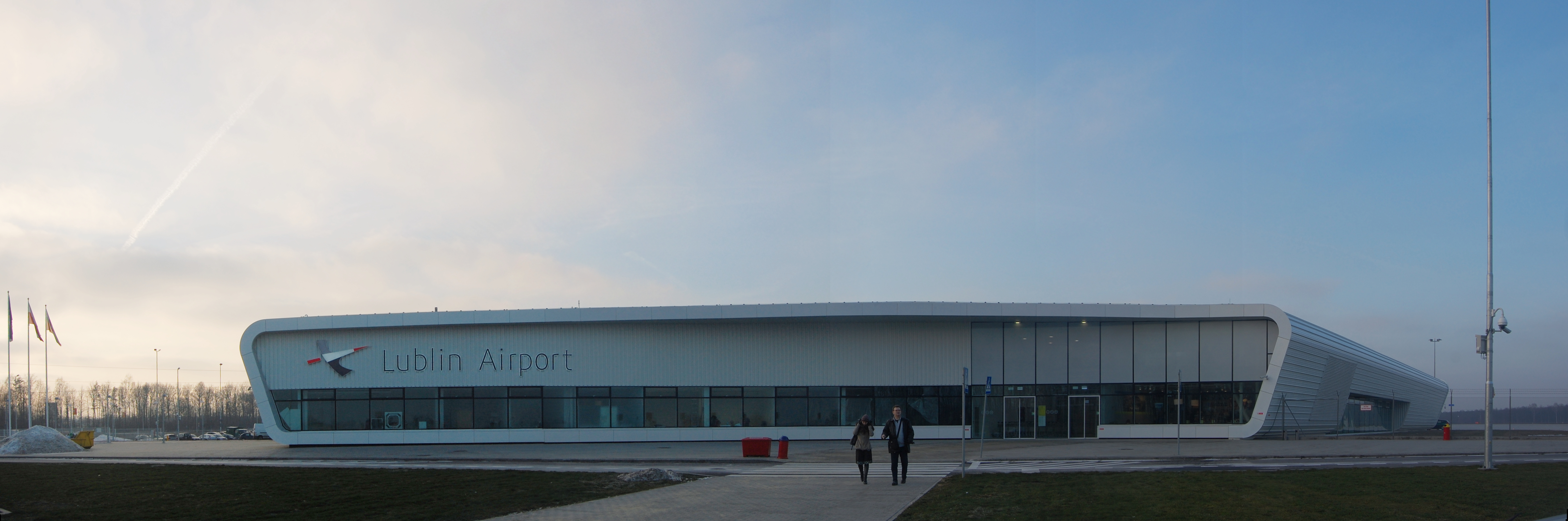 Lublin Airport, 2013-01-09